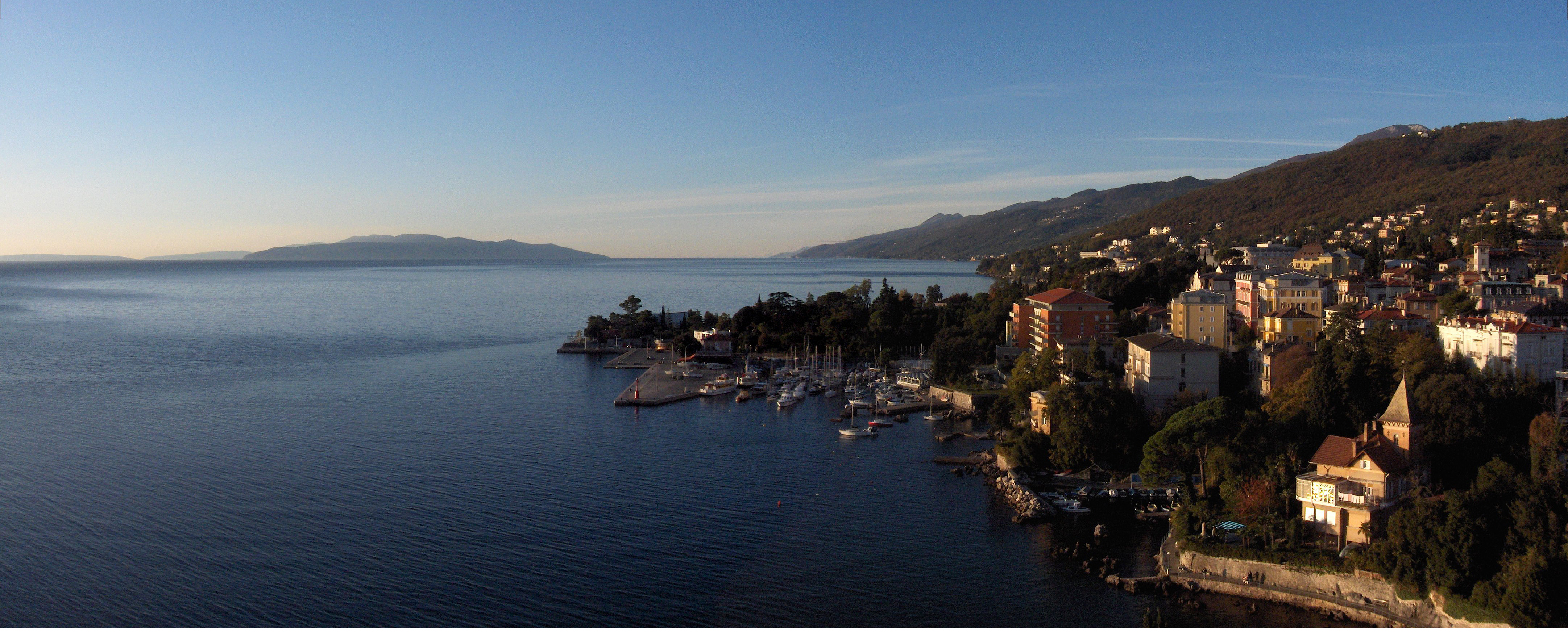 Panoramic view on Opatija and the Kvarner bay; Croatia